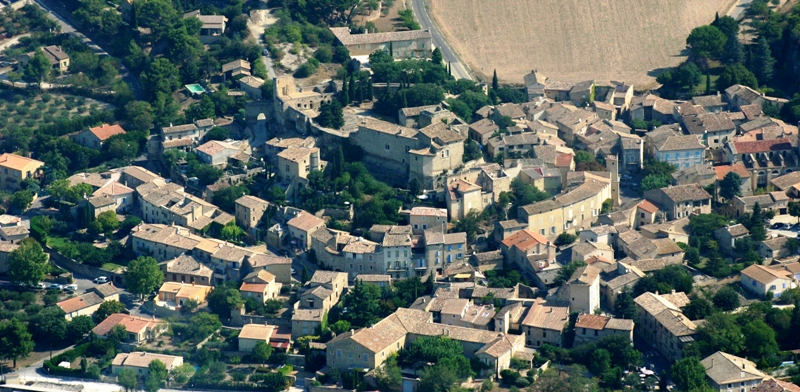 bird view of Lagnes, France